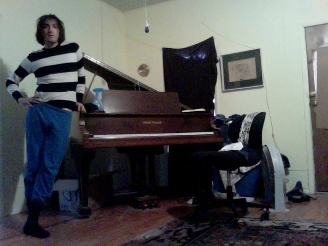 david loca part time next to his piano